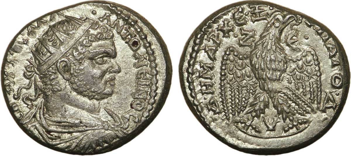 Zeugma